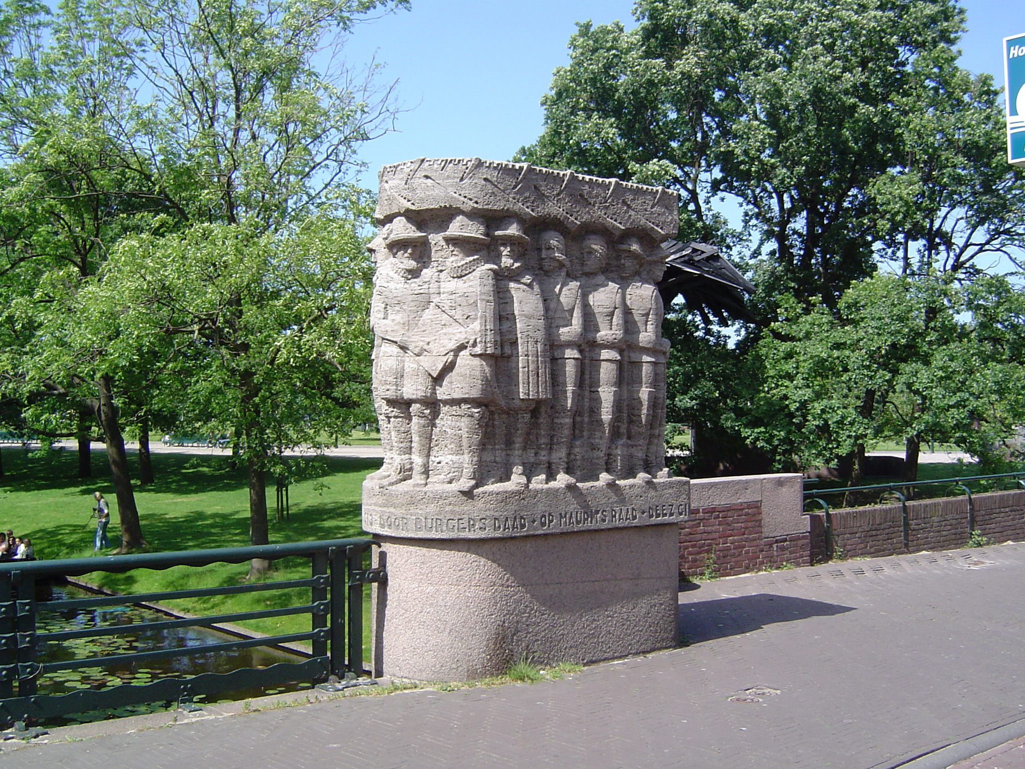 Memorial/sculpture Monument voor Prins Maurits by Joop van Lunteren (1932). Location: Heerenbrug, Prinsessegracht at The Hague/The Netherlands.